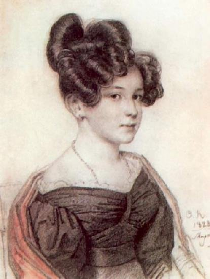 Portrait by Anna Alexeevna Olenina